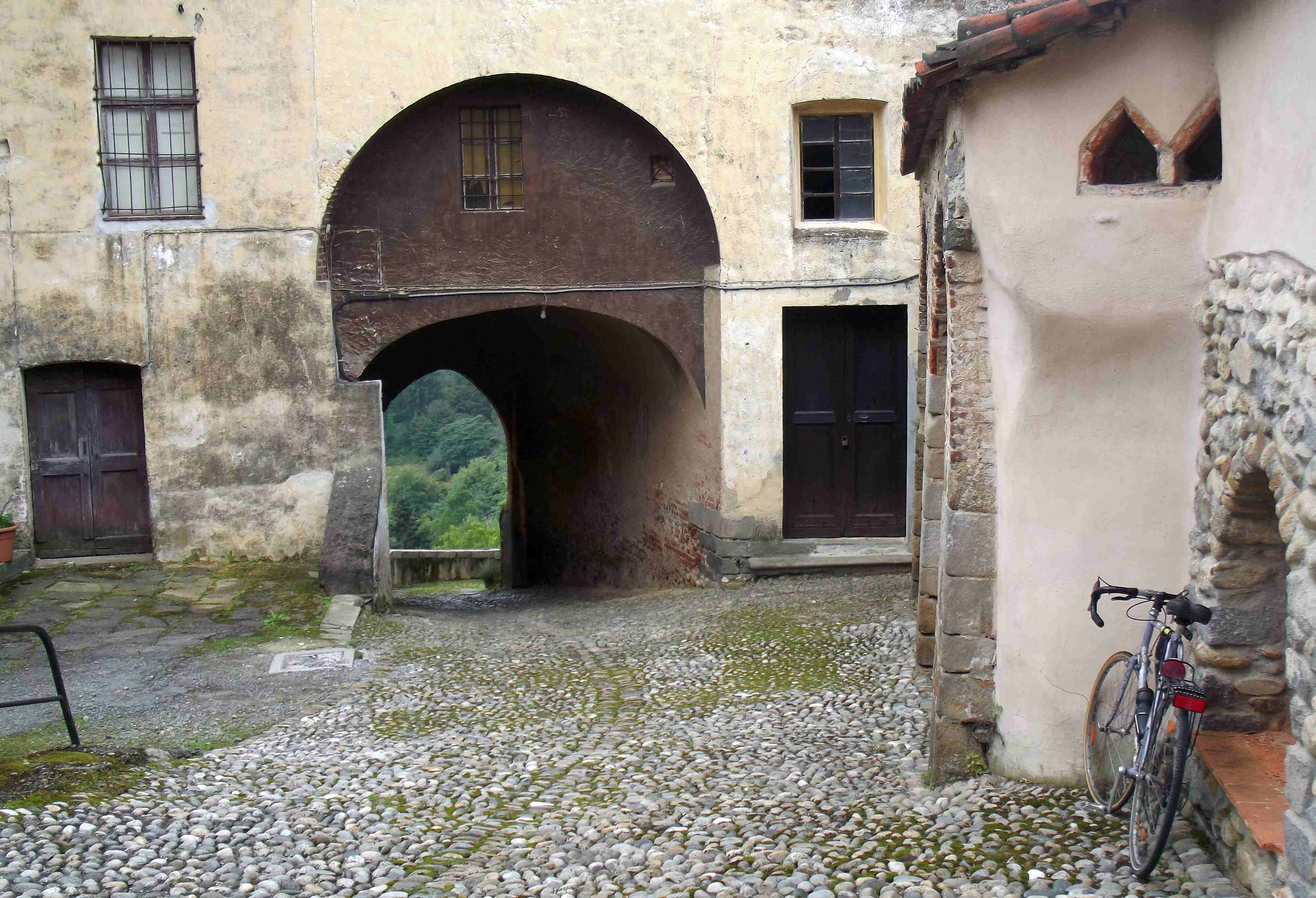 Valdengo castle (BI, Italy): entrance gate from its inner side